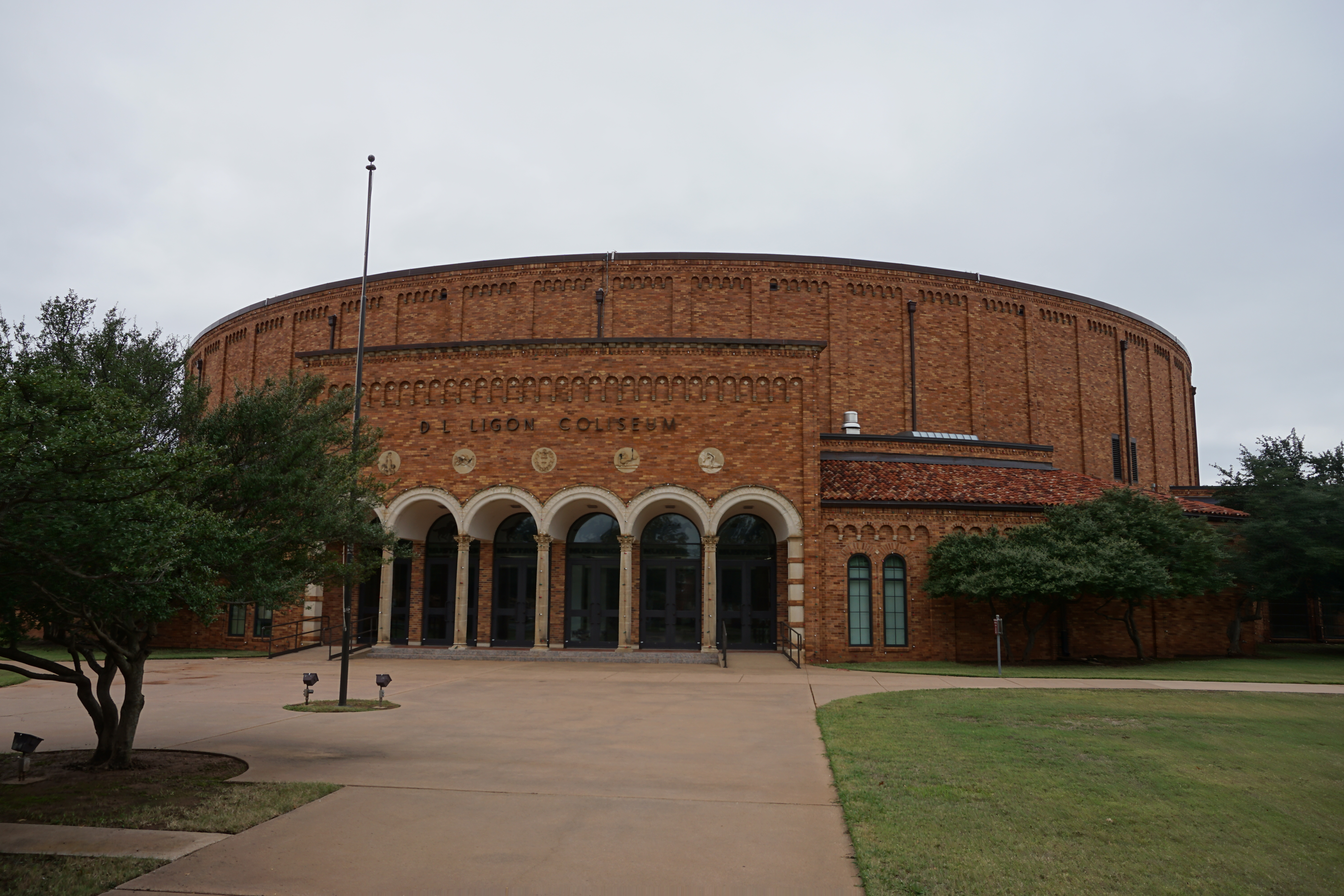 D. L. Ligon Colliseum on the campus of Midwestern State University in Wichita Falls, Texas (United States).